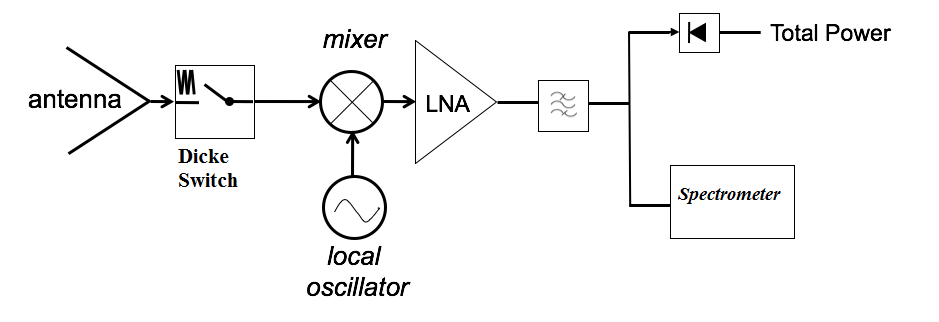 Schematic diagram of a microwave radiometer using the heterodyne principle. After being received at the antenna the radiofrequency signal is downconverted to the intermediate frequency (IF) with the help of a stable local oscillator signal. After amplification with a Low Noise Amplifier (LNA) and band pass filtering the signal can be detected in full power mode, by splitting or splitting it into multiple frequency bands with a spectrometer. For high-frequency calibrations a Dicke switch is used here.